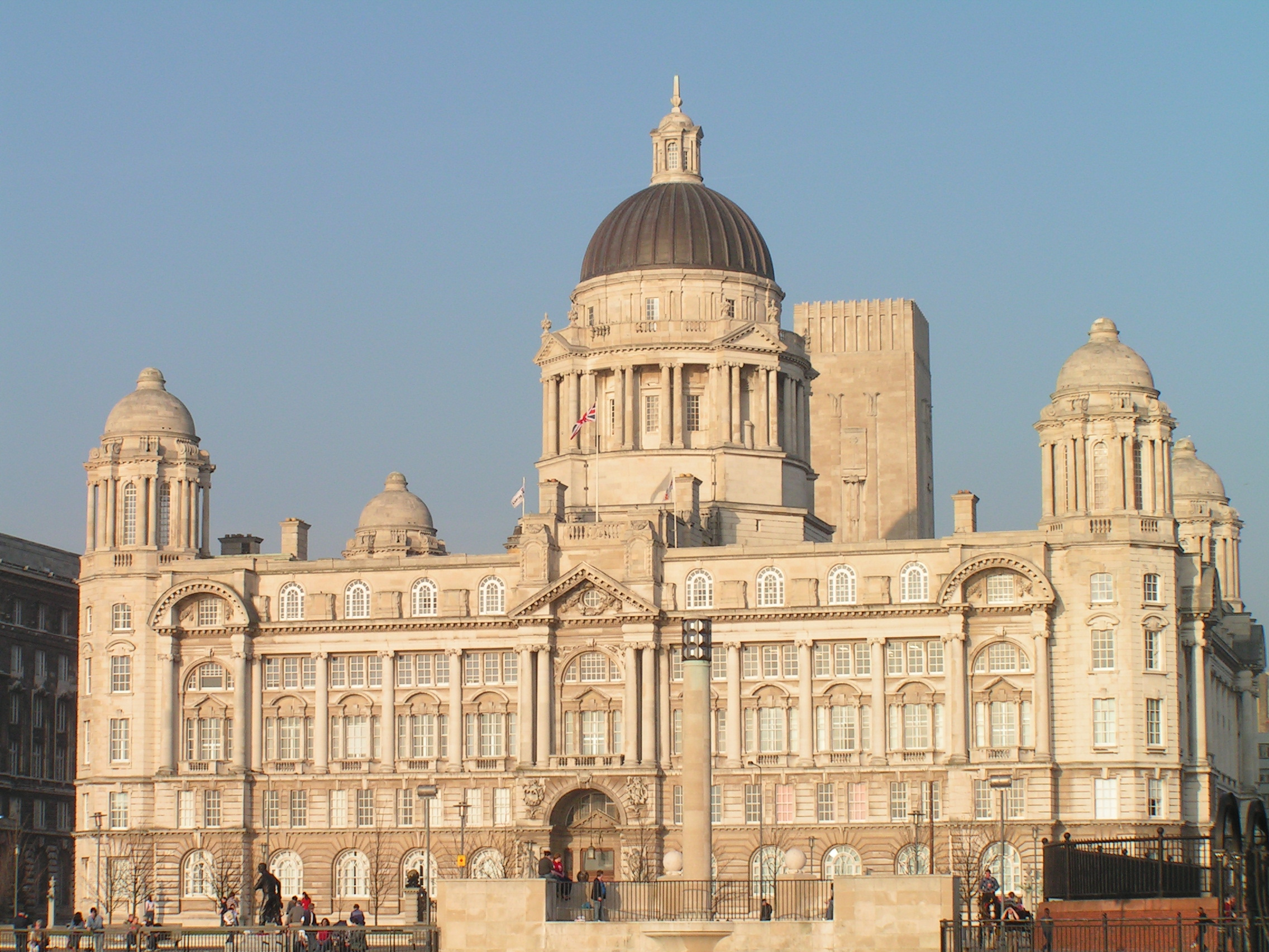 This is the Port of Liverpool Building (also known as the Mersey Docks and Harbour Board), Liverpool, England (and not the Cunard Building which is immediately to the north, and has a flat roof).